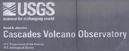 Tight crop to name of observatory from the original, which showed the sign for the Cascades Volcano Observatory (Vancouver, Washington State, USA) on Open day 2005.